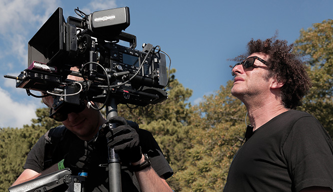 Michael Dweck directing the production of feature film Blunderbust in 2013.